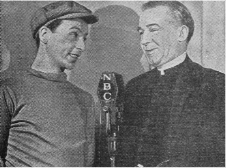 Photo of Ken Lynch and Richard Gordon from the radio program The Bishop and the Gargoyle. A search for renewal was done in publications for the years 1968 and 1969. There were no listings for the title Radio Varieties. There's no evidence of renewal for the magazine.